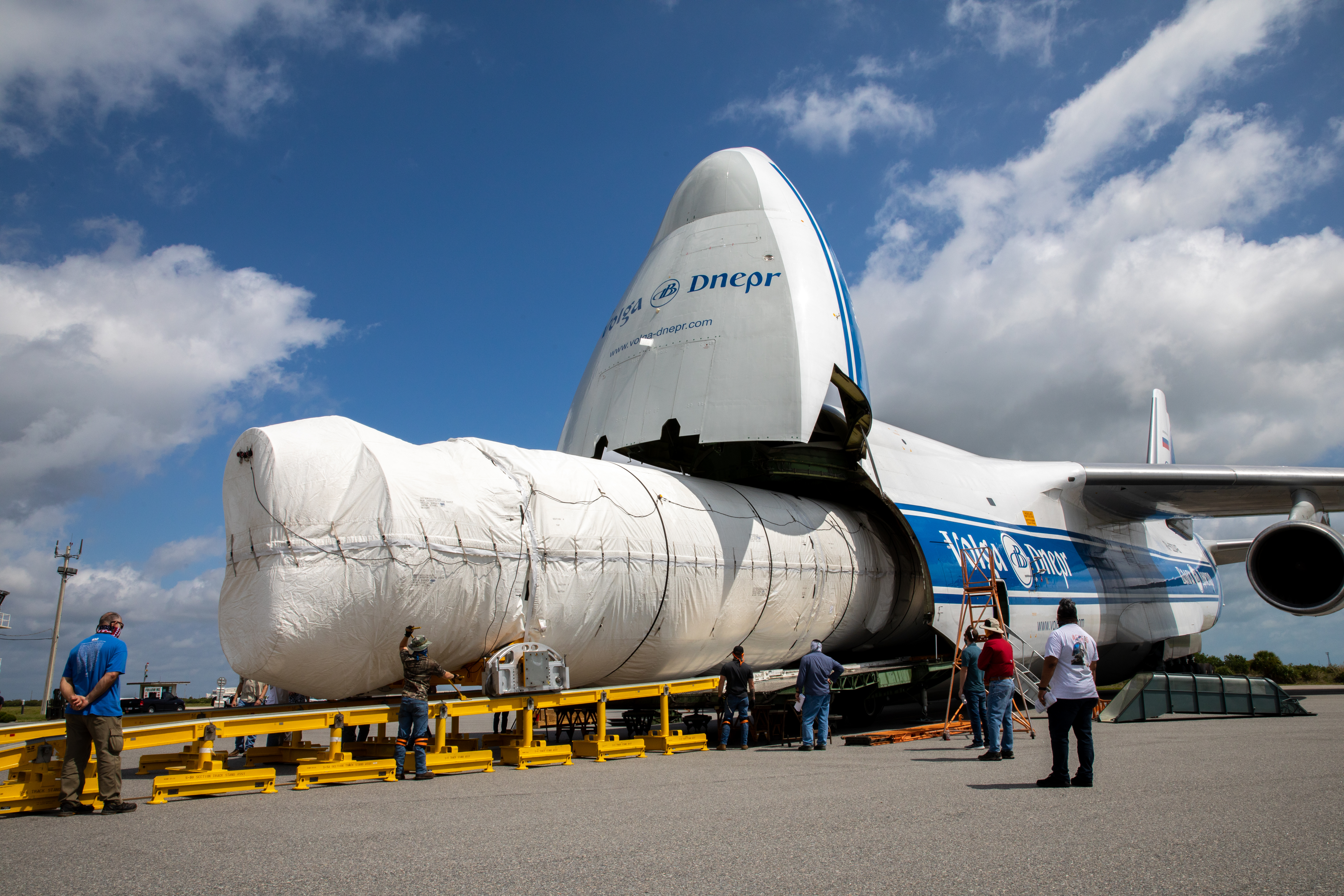 Mars 2020 Booster Offload. The United Launch Alliance booster for NASA’s Mars Perseverance rover is offloaded from the Antonov 124 cargo aircraft at the Skid Strip at Cape Canaveral Air Force Station (CCAFS) in Florida on May 19, 2020. The Mars Perseverance rover is scheduled to launch in mid-July atop a United Launch Alliance Atlas V 541 rocket from Pad 41 at CCAFS. The rover is part of NASA’s Mars Exploration Program, a long-term effort of robotic exploration of the Red Planet. The rover will search for habitable conditions in the ancient past and signs of past microbial life on Mars. The Launch Services Program at Kennedy is responsible for launch management. Location: Skid Strip, CCAFS, Photographer: NASA/Kim Shiflett. NASA ID: KSC-20200519-PH-KLS01_0051ULA usually delivers Atlas V first stages using the company’s ocean-going vessel but it was busy delivering Delta 4 rocket cores to Vandenberg.[1]